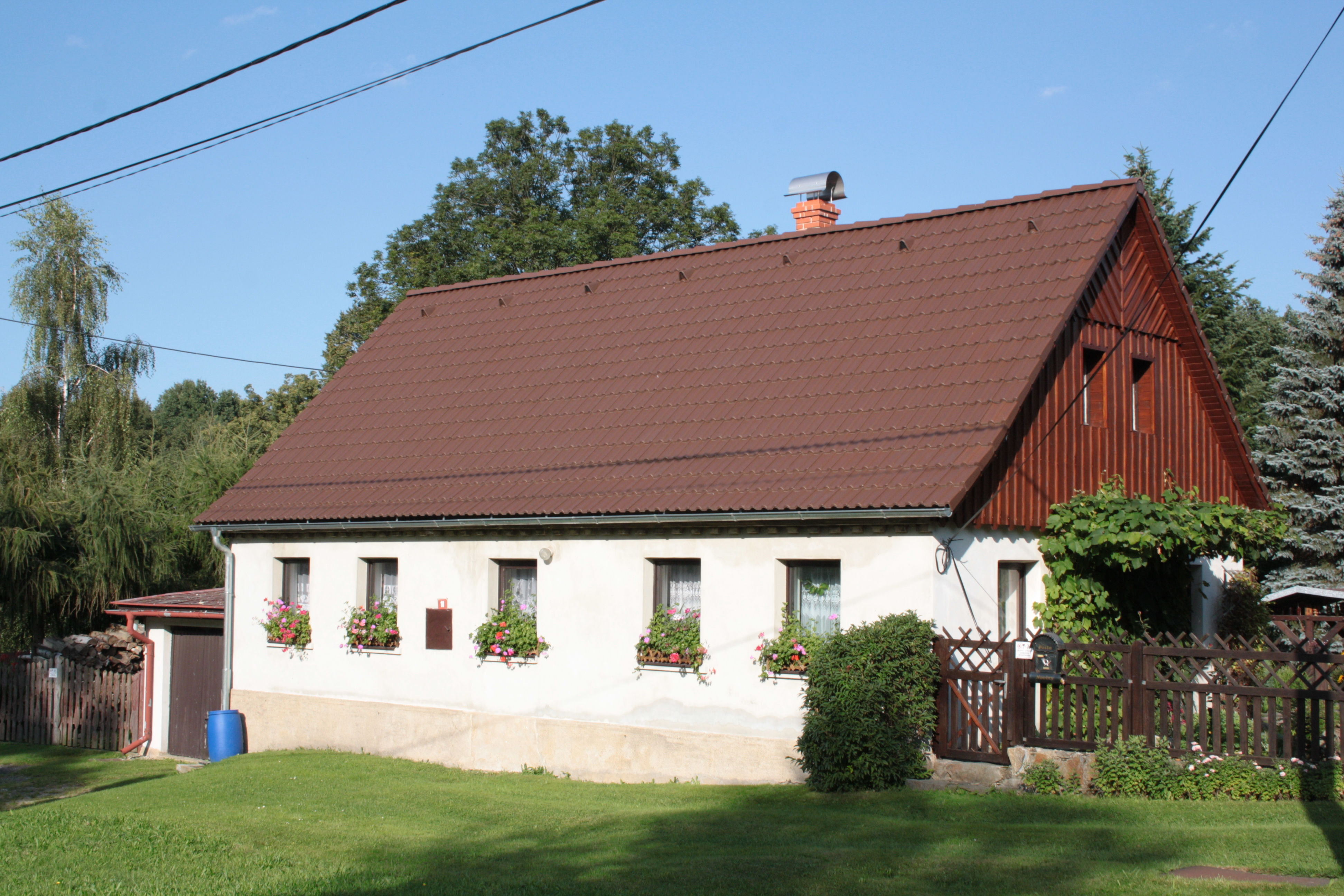 This photograph was taken with a DSLR from WMCZ's Camera grant. Dům čp. 10 v Háji u Habartic.